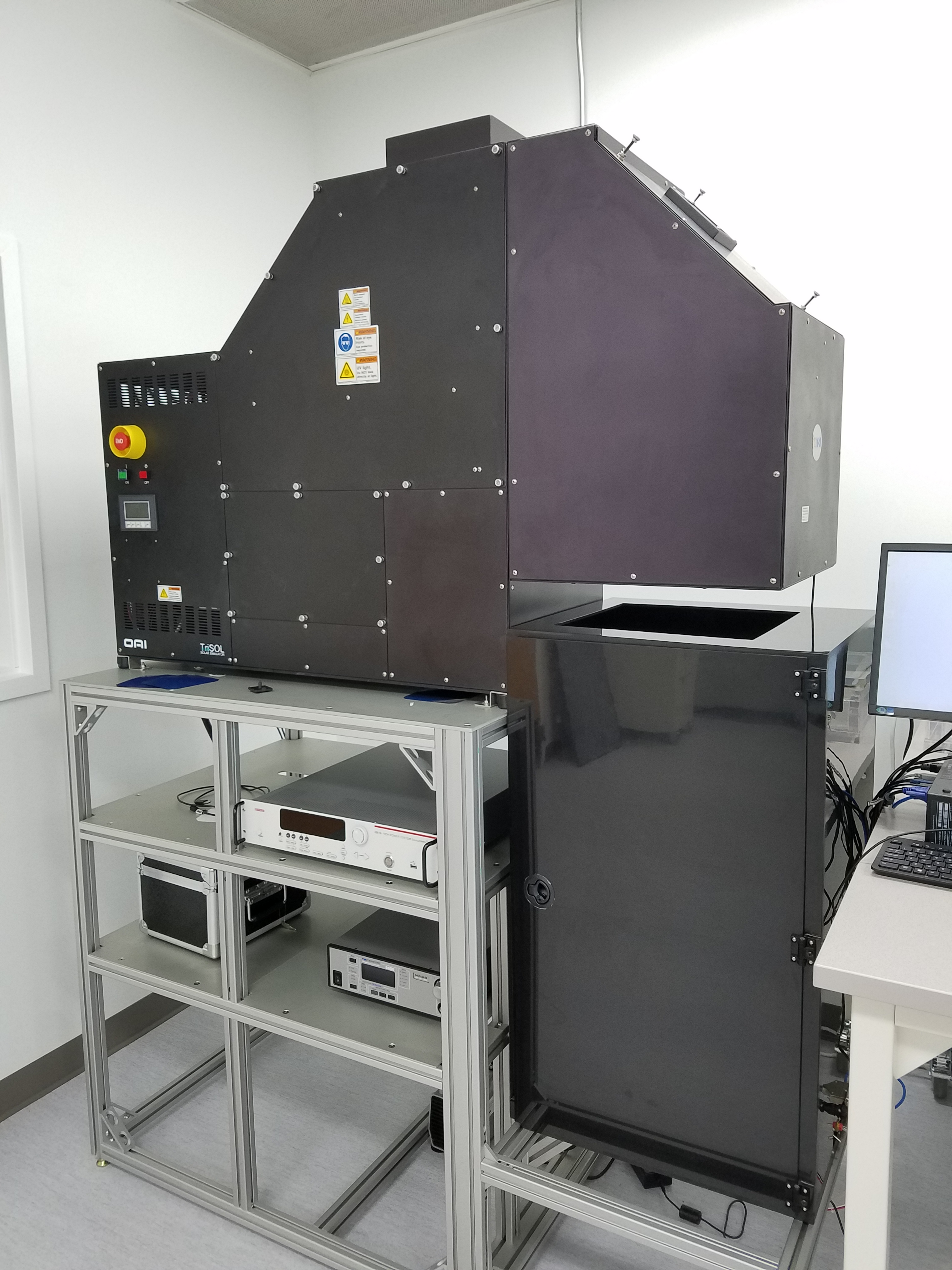 A TriSol class AAA Solar Simulator from OAI with AM1.5G spectrum. Taken at the Washington Clean Energy Testbeds lab at the University of Washington in Seattle, USA.